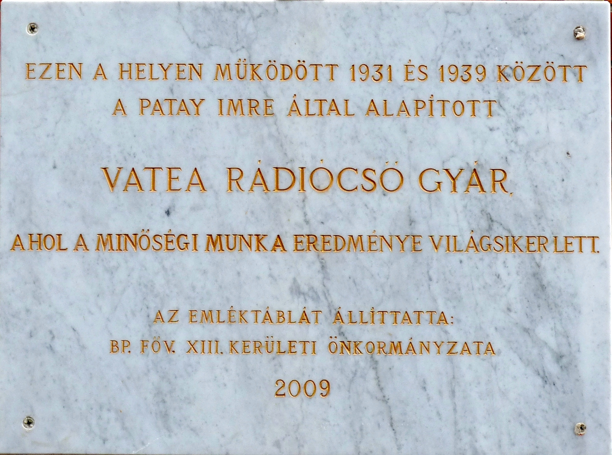 The commemorative plaque of the Vatea Radio Factory (officially Vatea Radio Technology and Electric Co. Ltd.) - where Imre Patai(hu), a founder of the Hungarian electrical engineering industry, worked - at the former building of the former factory (now Scientology Church in Budapest). It was affixed on 26 November 2009. Budapest, XIII. dist. Váci út 169.